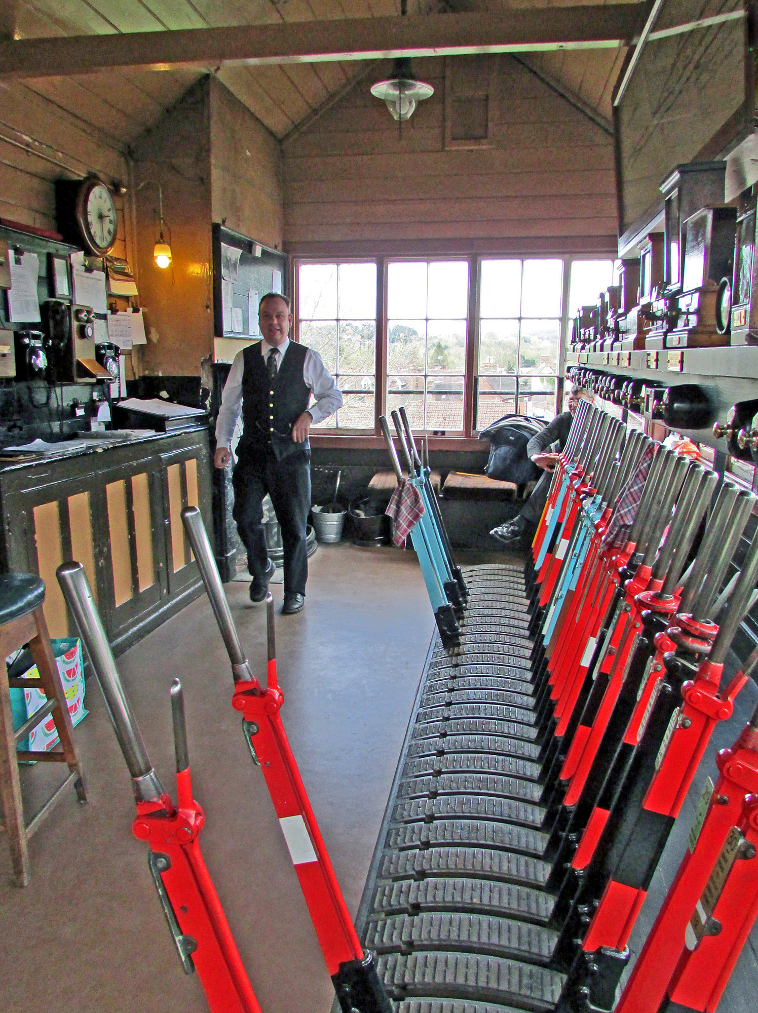 Bewdley North signal box interior in April 2016